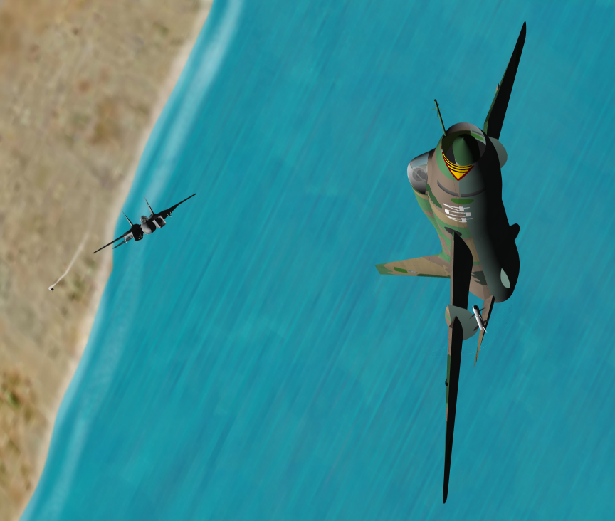 1981 Gulf of Sidra incident. F-14 Fast Eagle 107, from VF-41 about to shoot down a Libyan Su-22 with an AIM-9 Sidewinder.